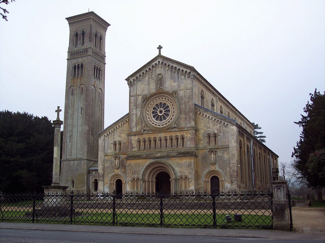 Church of England parish church of SS Mary and Nicholas, Wilton, Wiltshire